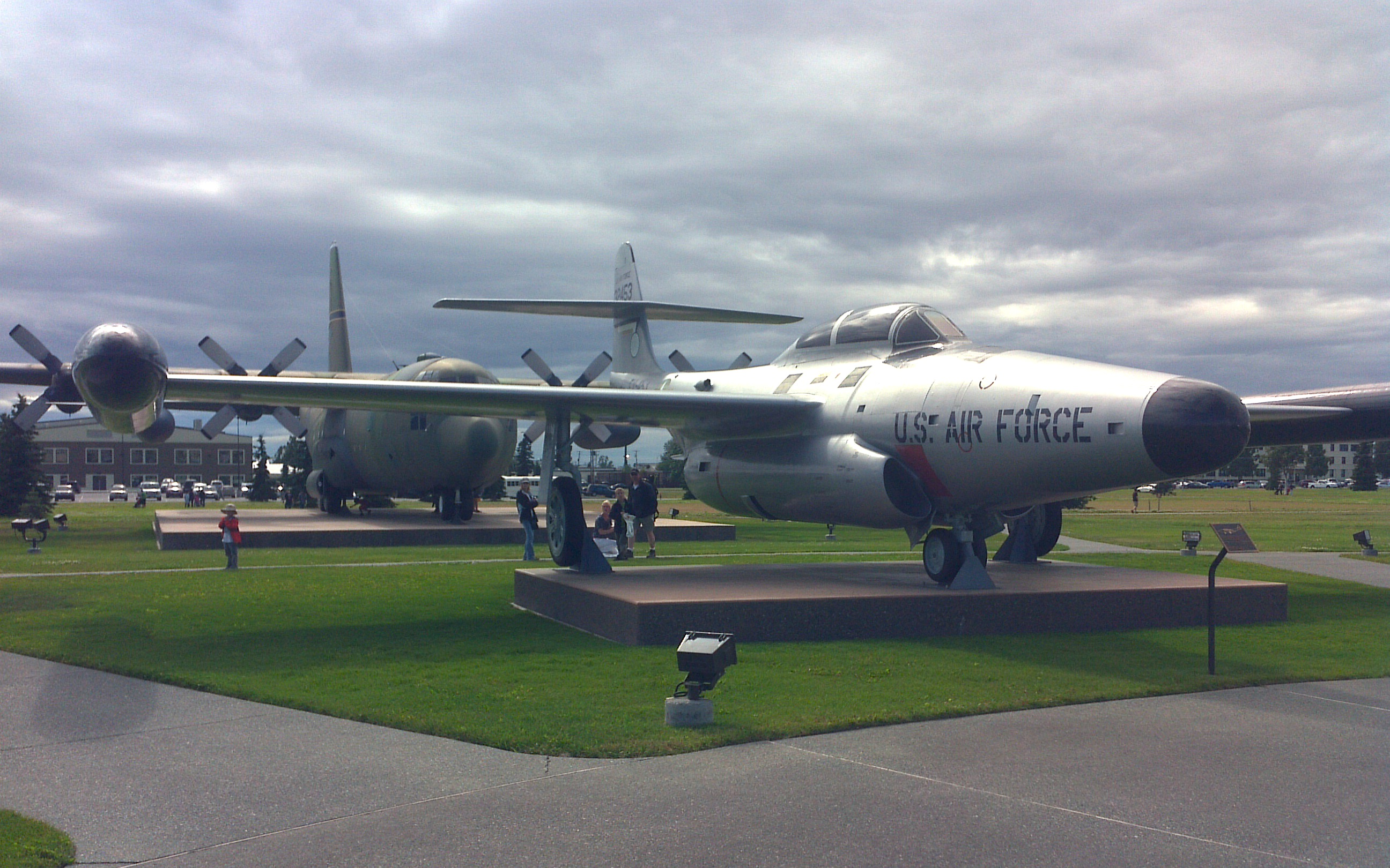 Northrop F-89J Scorpion in JBER